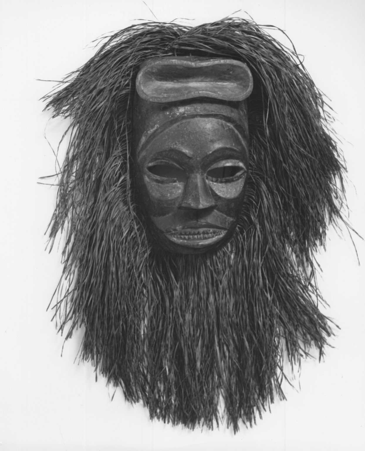 Ekpo Society Mask with Fringe Attachment